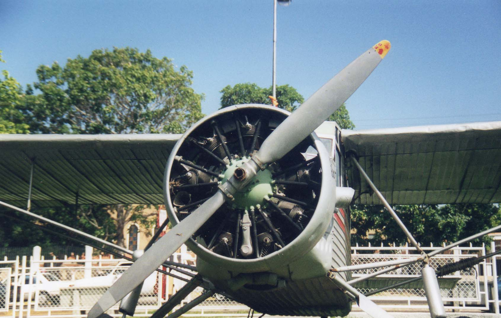 Metal Aircraft Corp G-2-W Flamingo, Jimmie Angel's aeroplane, Bolivar City, Venezuela